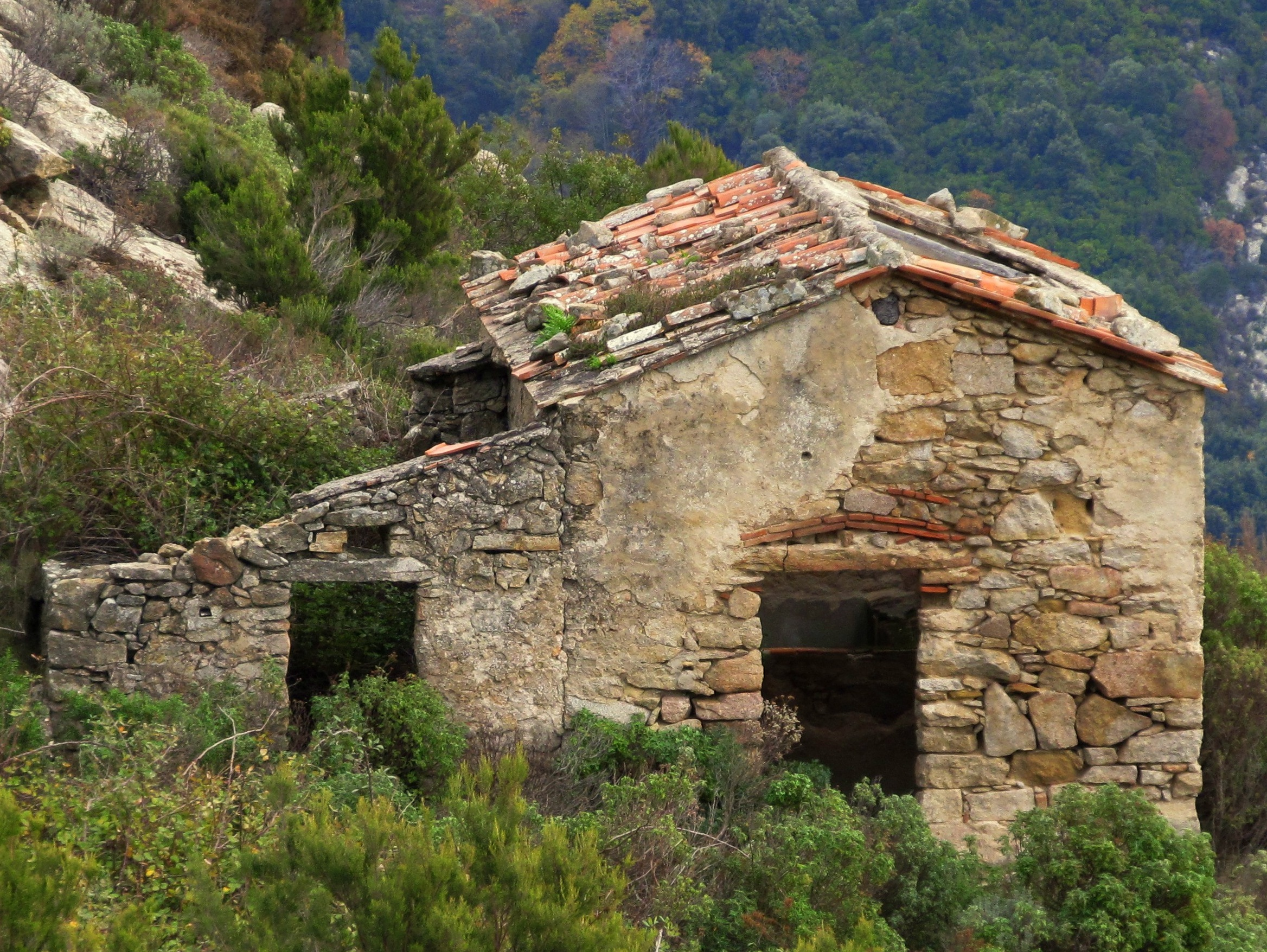 elba island